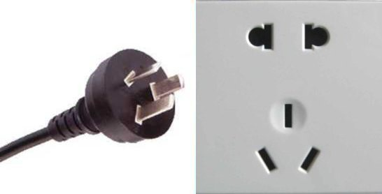 Plug from Image:I_plug.jpg Socket is my own photo, also at Image:Chinasocket.jpg Both have been released into public domain.